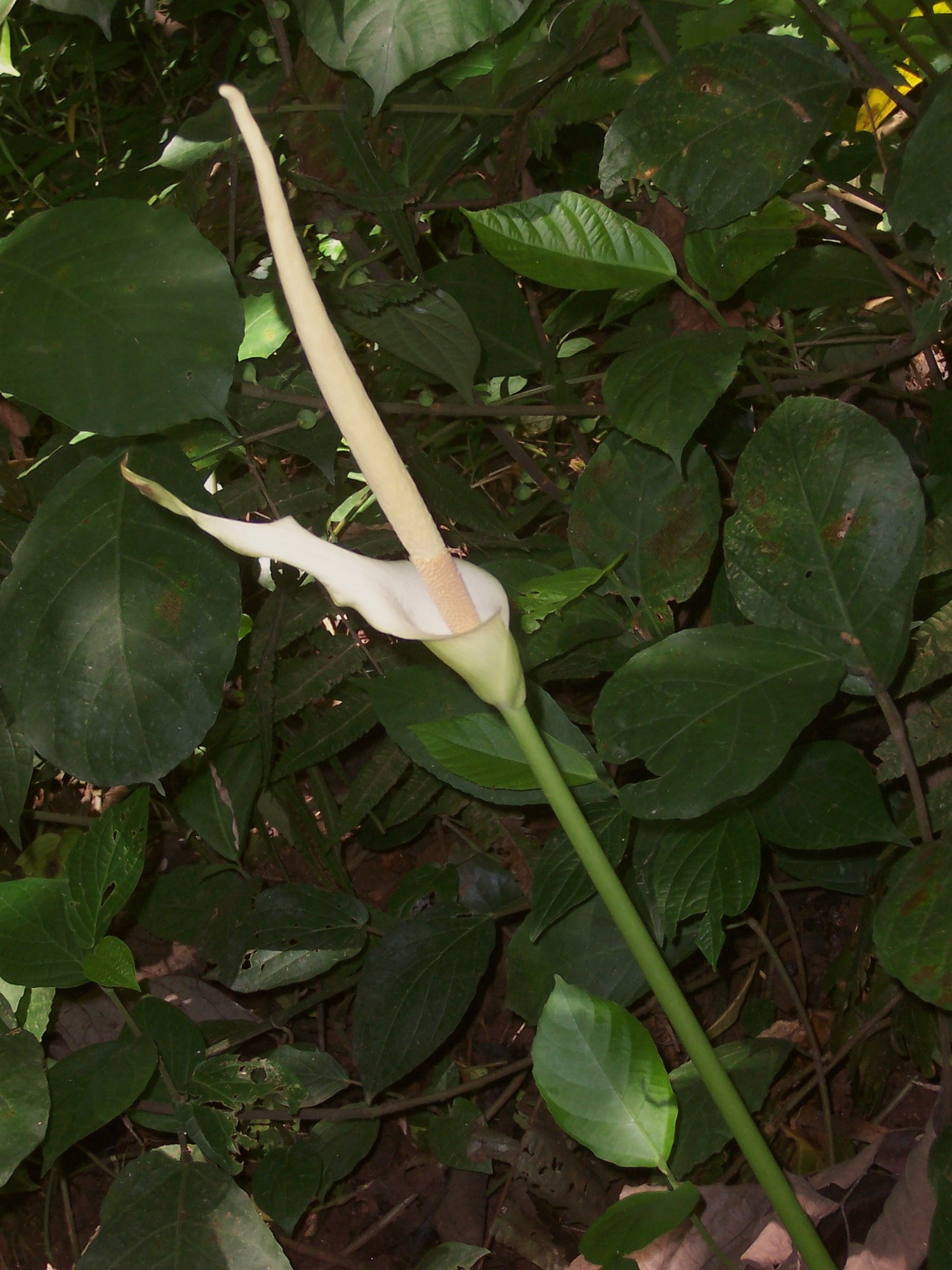 Amorphophallus variabilis; from Bogor, West Java, Indonesia